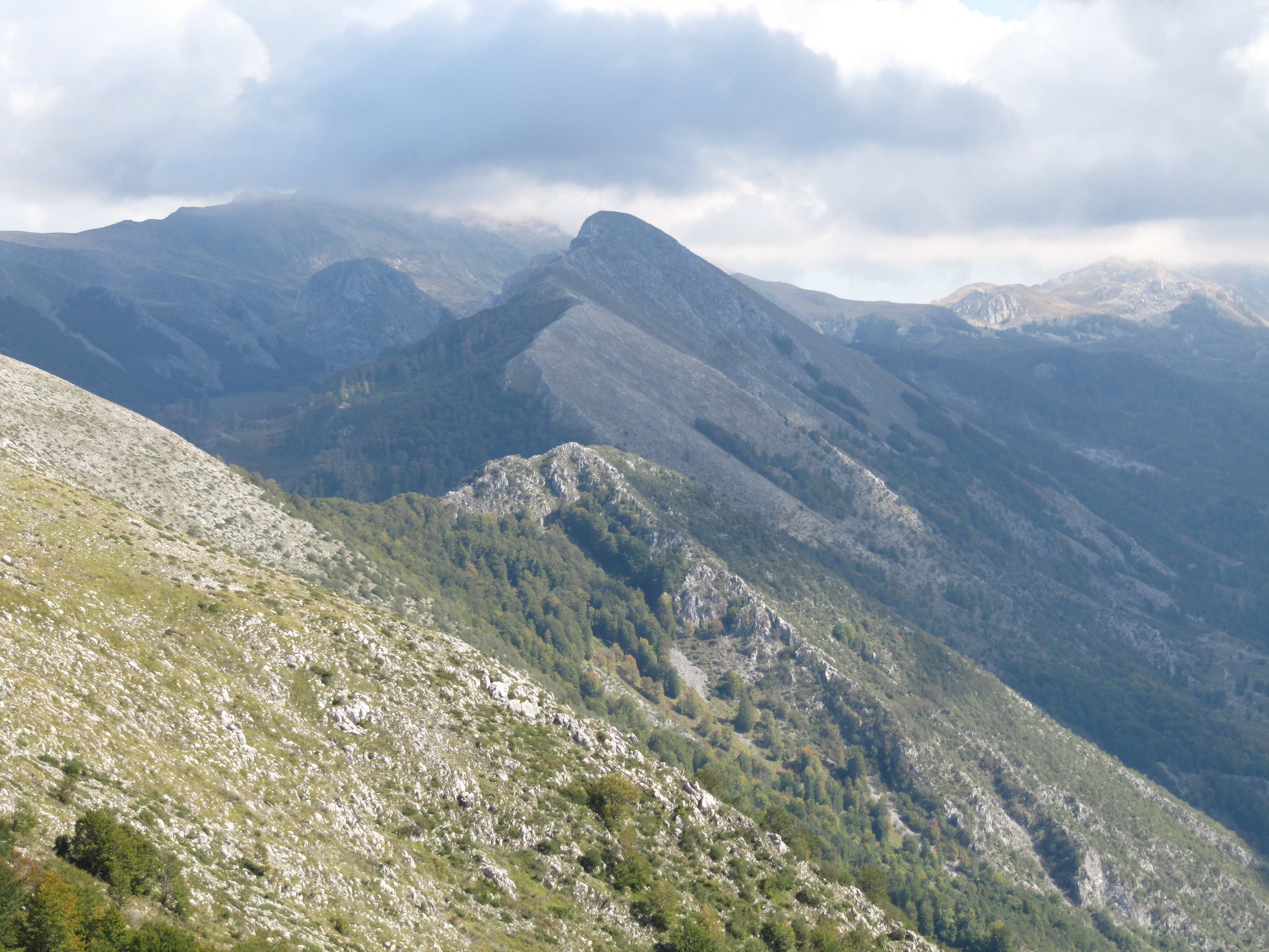 Towards Jabllanice Mountain in the Shebenik Jabllanice National Park, from Mirake Mountain